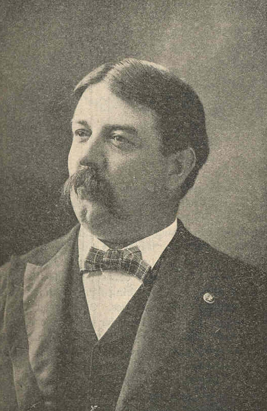 Hon. Geo. M. Bowers, Present Commissioner of Fish and Fisheries Subject: United States Fish Commission, Bowers, George M. Tag: People